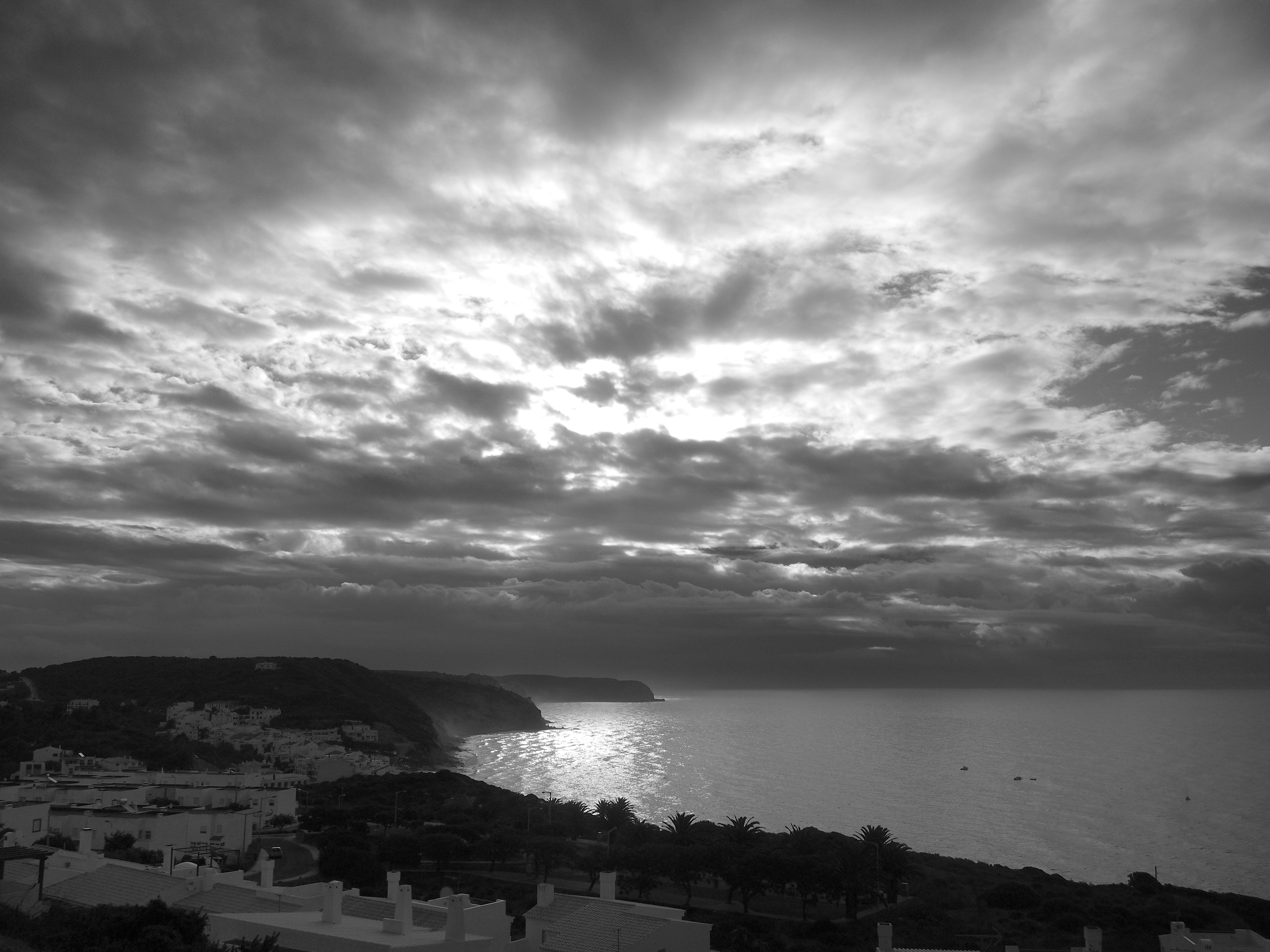 Salema Bay, Algarve, Portugal in September 2011